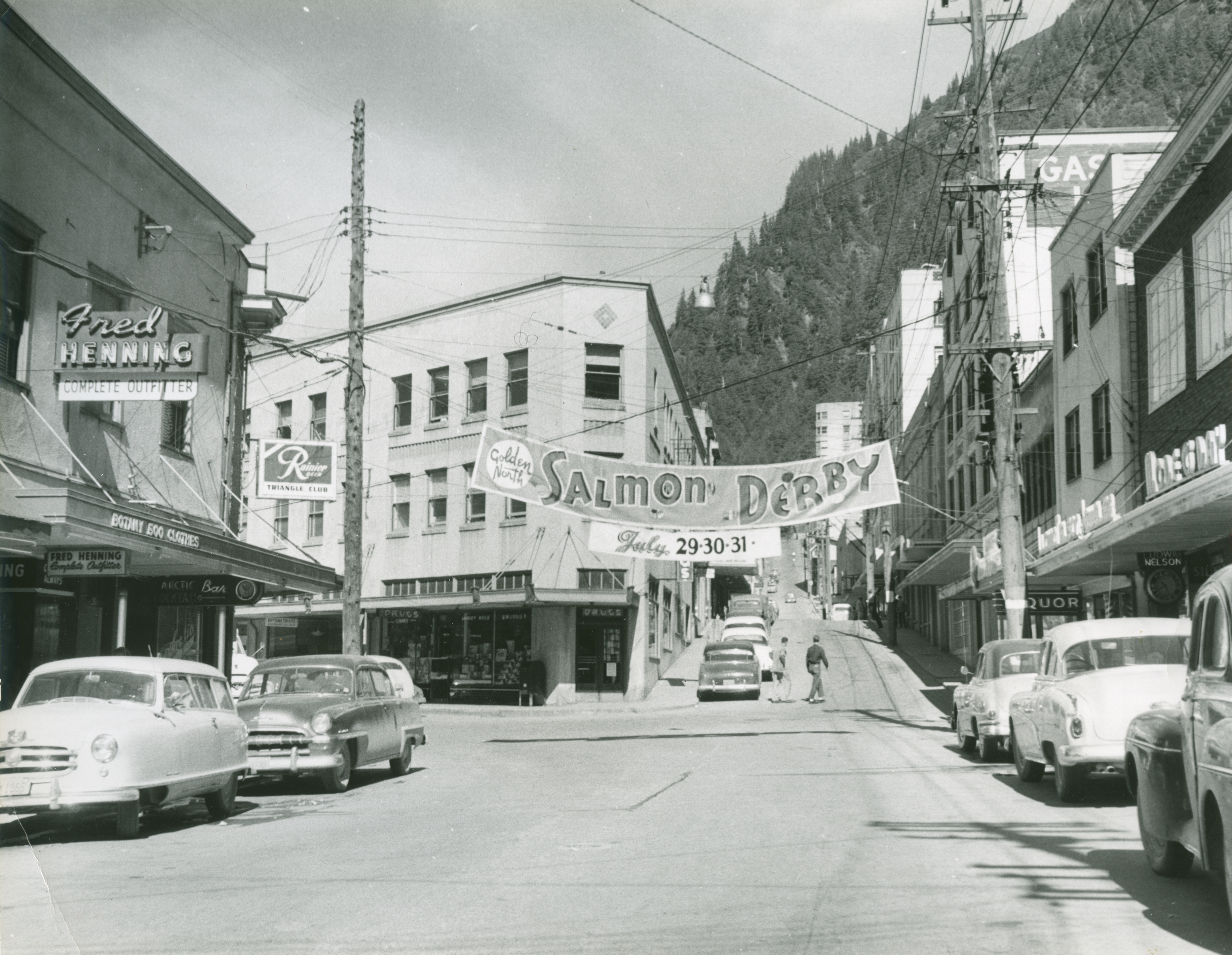 Meyer, Elisabeth Street in Alaskas capital Juneau during the sporting event of the summer, Golden North Salamon Derby. Gelatin silver print, baryta NMFF.002537-22